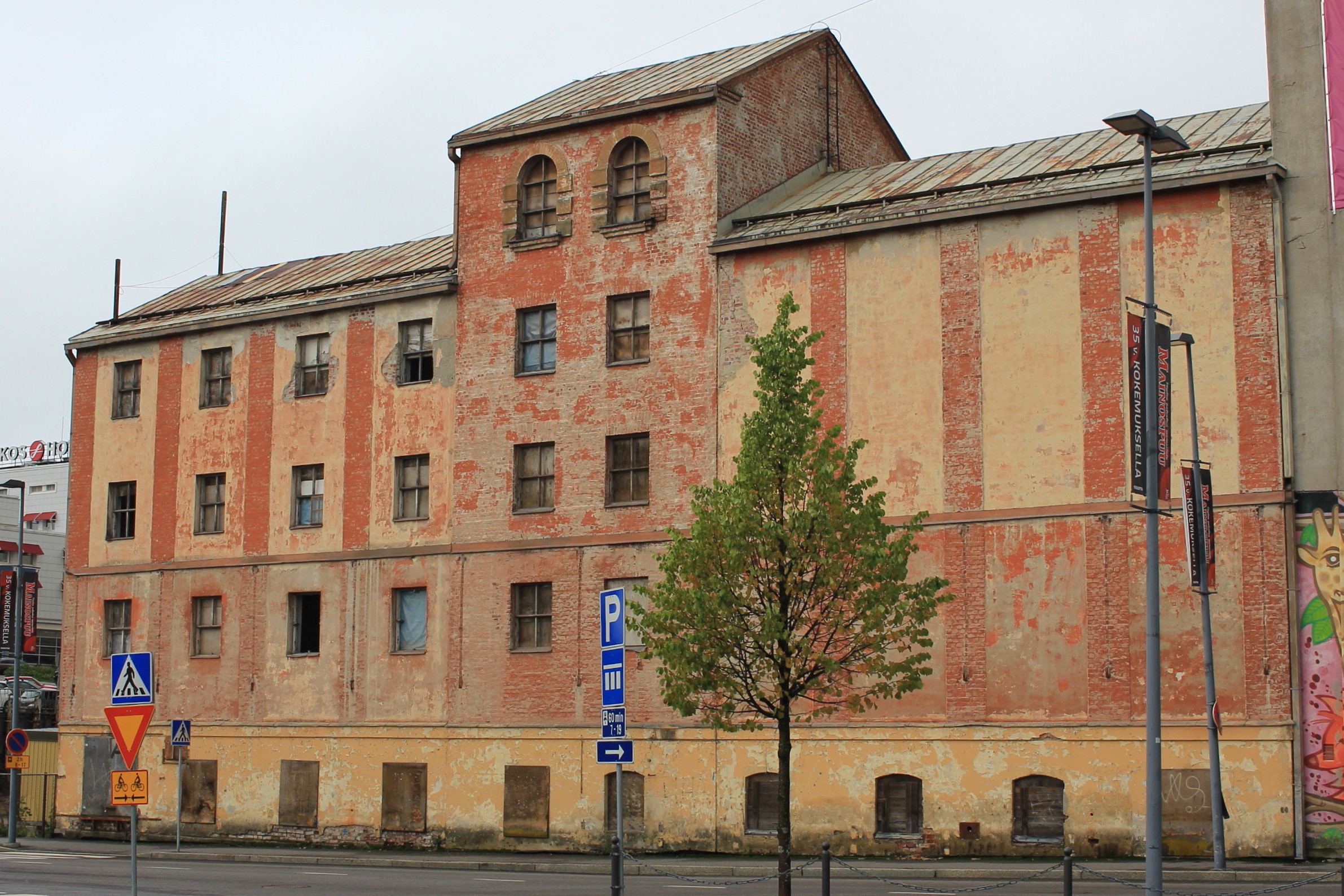 Former mill in Mikkeli, Finland.